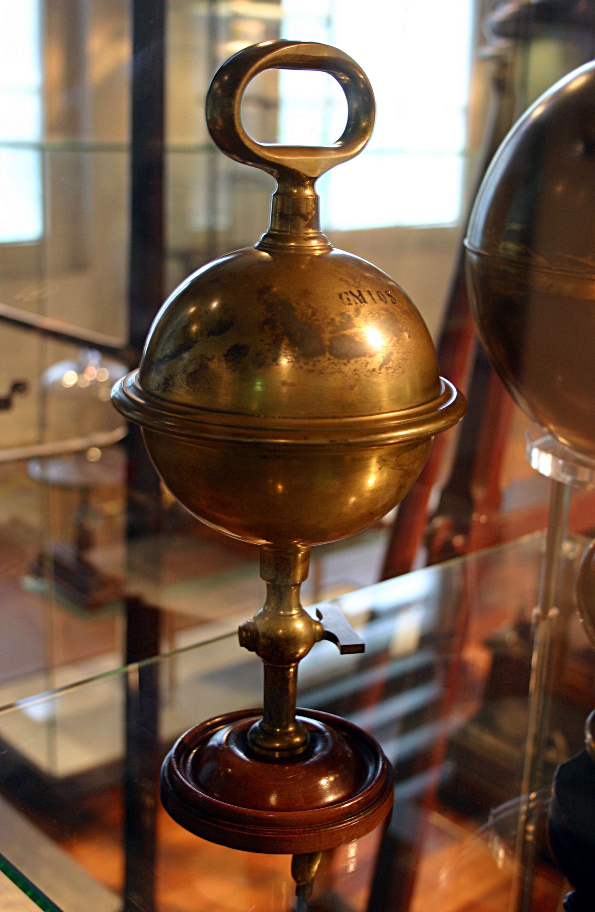 Museum Boerhaave, Leiden - Magdeburg hemispheres object id (inventary #): V09648 dimensions: h: 30,5 cm diam.: 13,5 cm period: 1730 related names: Guericke, Otto von (Manufacturer)